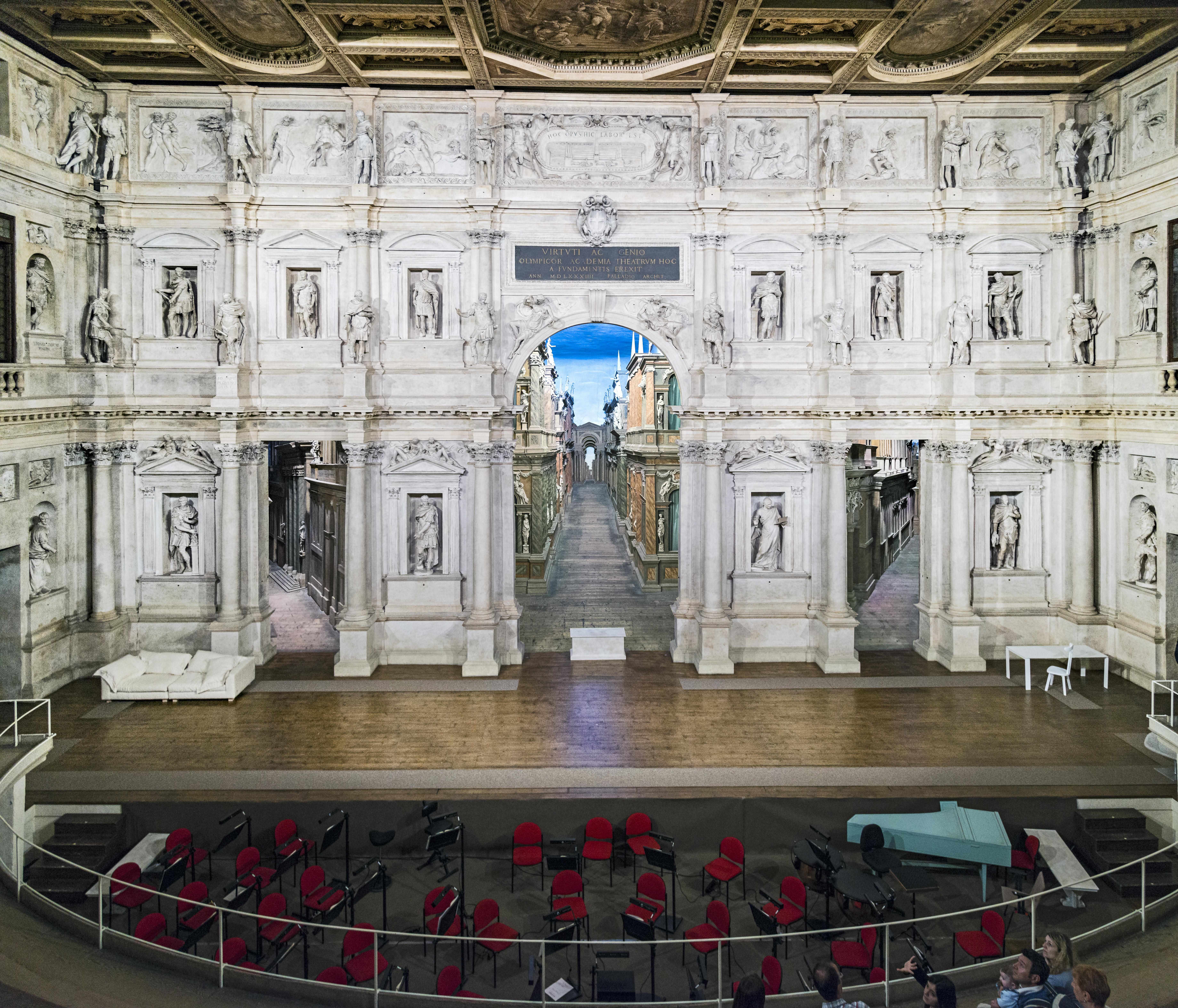 Teatro Olimpico. Theater located in Vicenza, designed in 1580 by the architect of the Renaissance Andrea Palladio. It is generally considered the first permanent covered theater of modern times. View of the stage wall (Scaenae frons), the stage, and the orchestra pit.